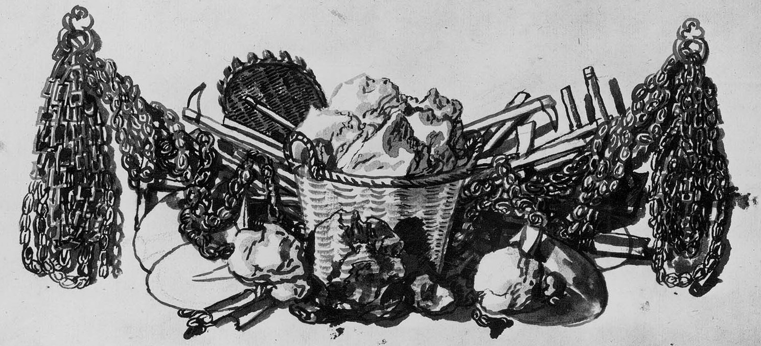 Arnold de Hontoire, composition with guirlandes and and mining tools. Drawing in the collection of the Cabinet des Estampes et des Dessins, now part of the Grand Curtius Museum in Liège, Belgium.